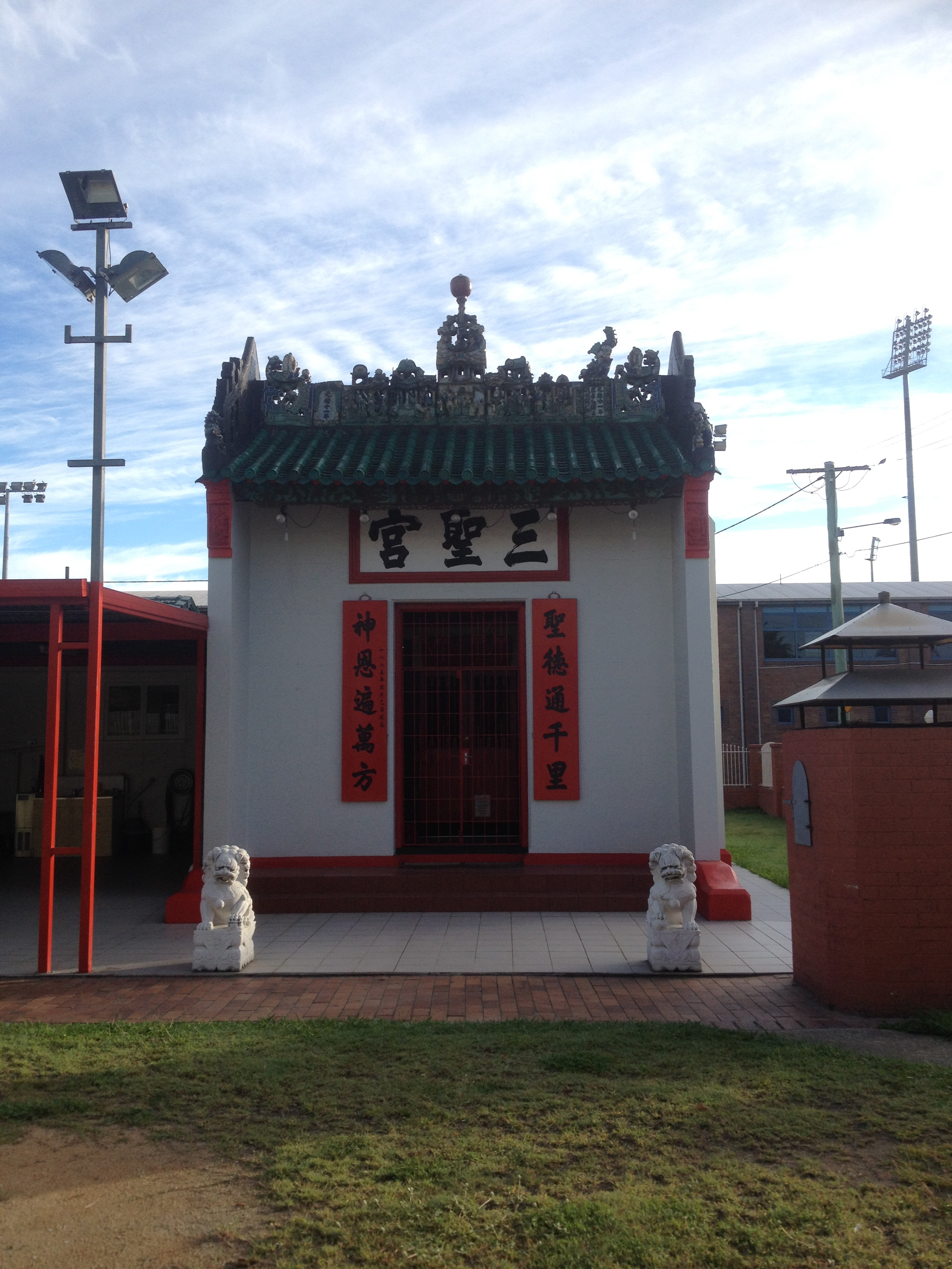 The Temple of the Holy Triad at 32 Higgs Street, Albion, Brisbane, Queensland